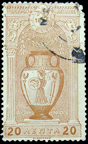 Stamp of Greece, The First Olympic Games, 1896, 20 l.